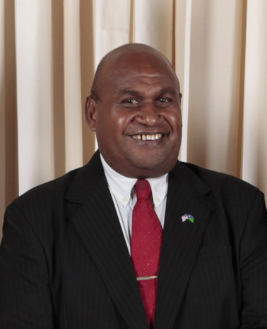 Fredrick Fono, Deputy Prime Minister and Minister of Development and Indigenous Affairs of Solomon Islands.